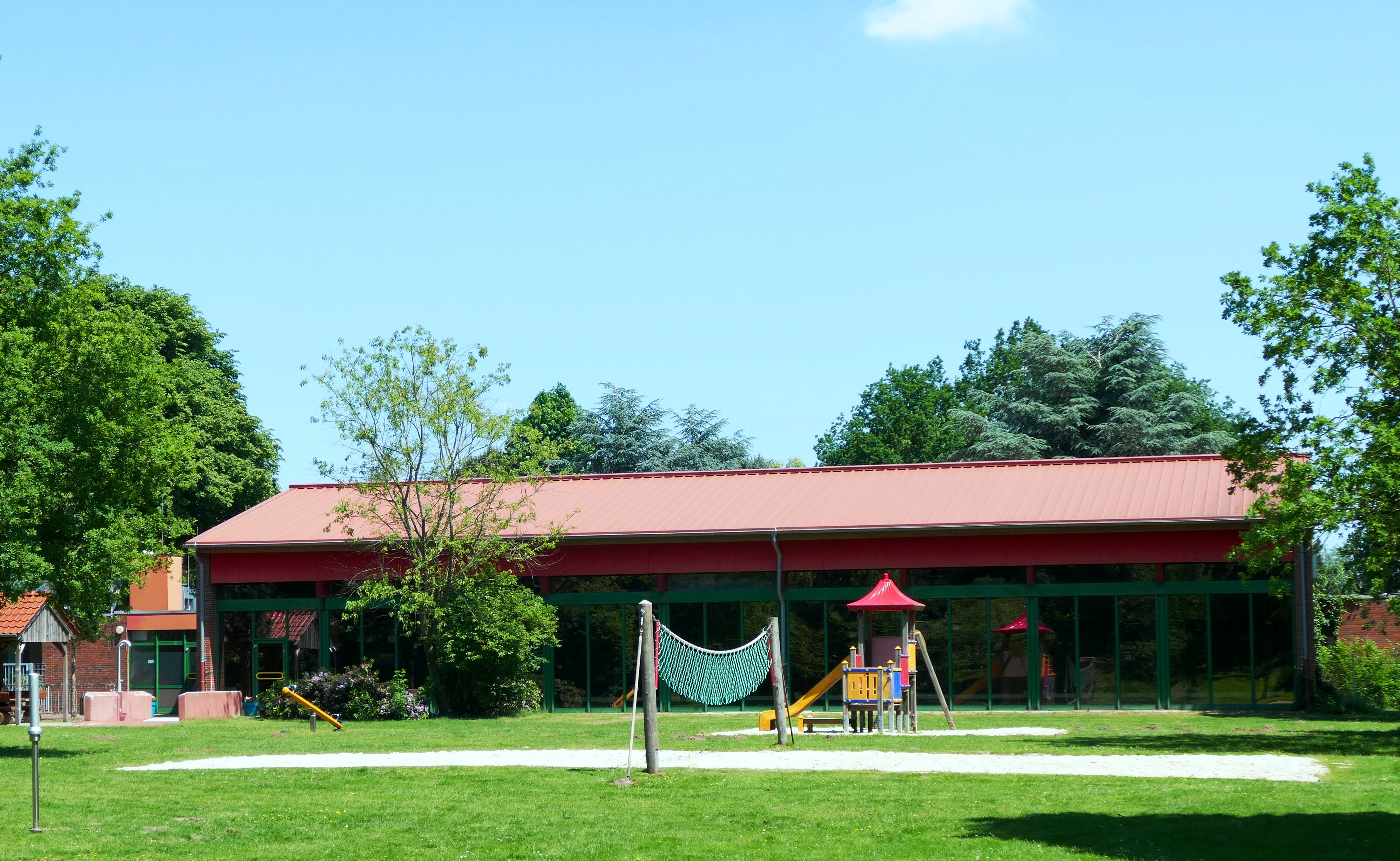 Public indoor swimming pool in Twist (Germany)